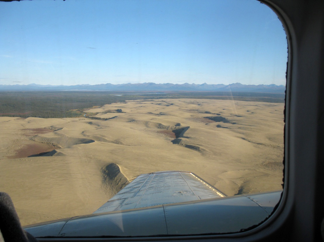 Great Kobuk Sand Dunes